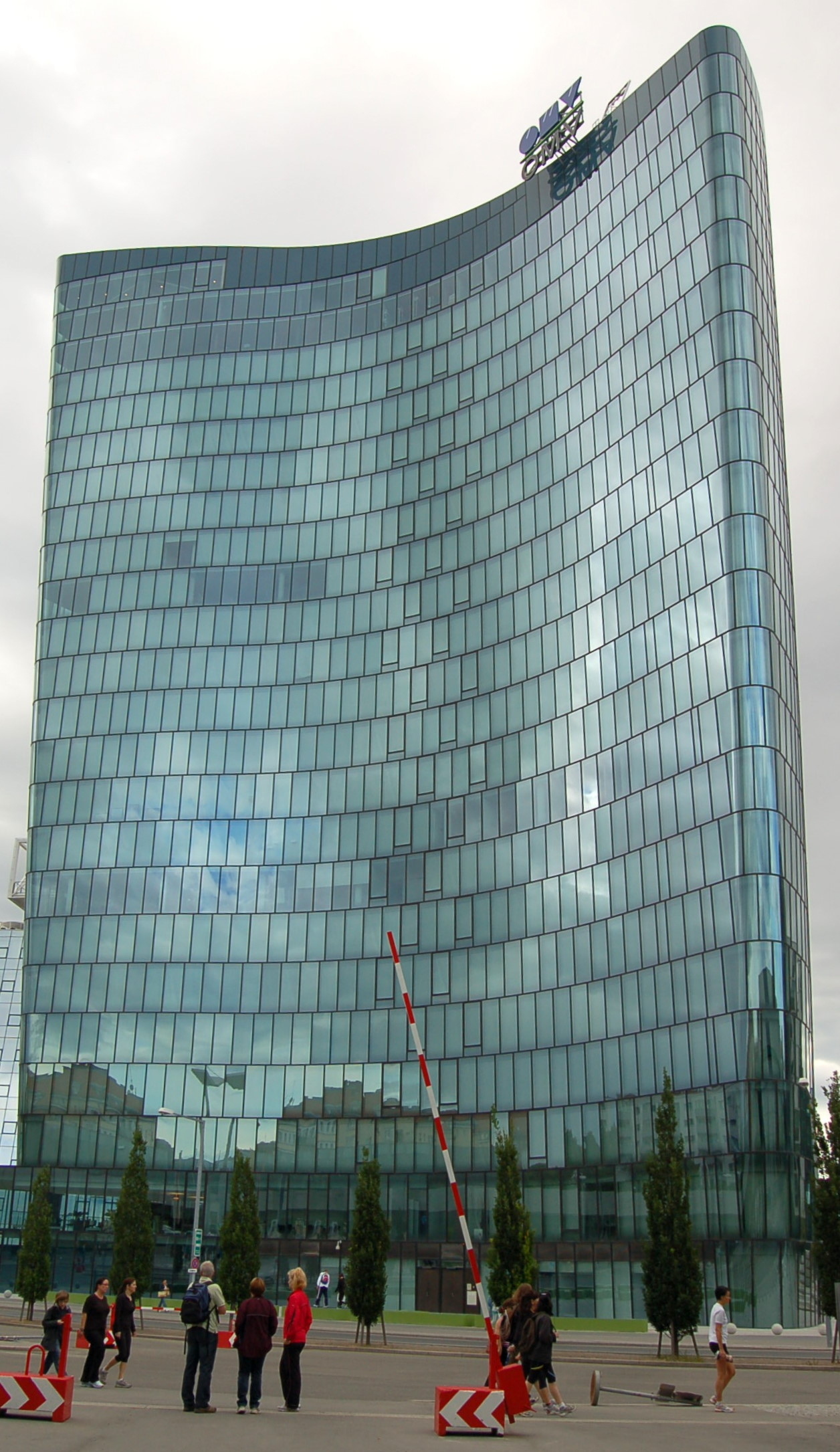 Office building of OMV AG at Trabrennstraße, Vienna's 2nd district